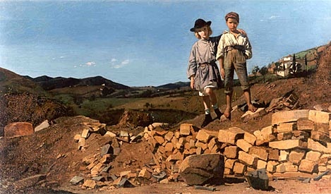 oil on canvas, painted 1859